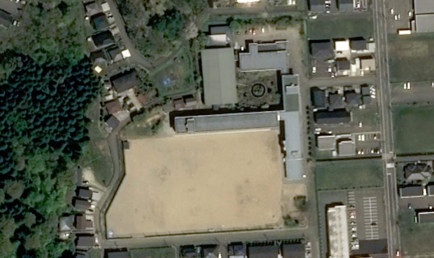 Hiroomote Elementary School